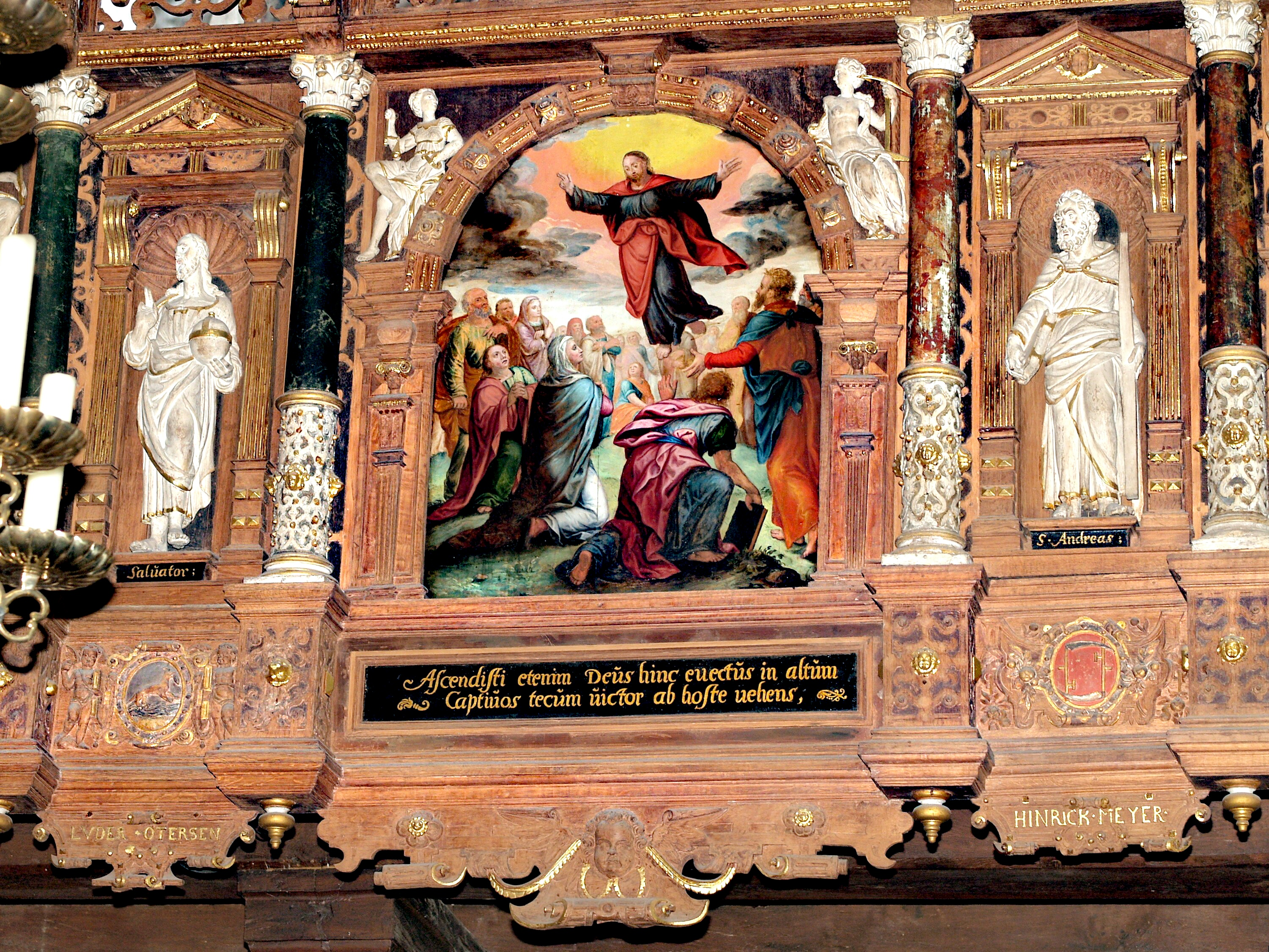 St. Aegidien at Luebeck, Germany, detail of the choir podium